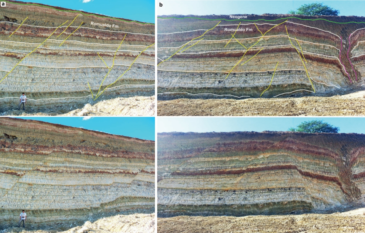 Outcrop and interpretation of the Romualdo Formation, Araripe Basin, NE Brazil